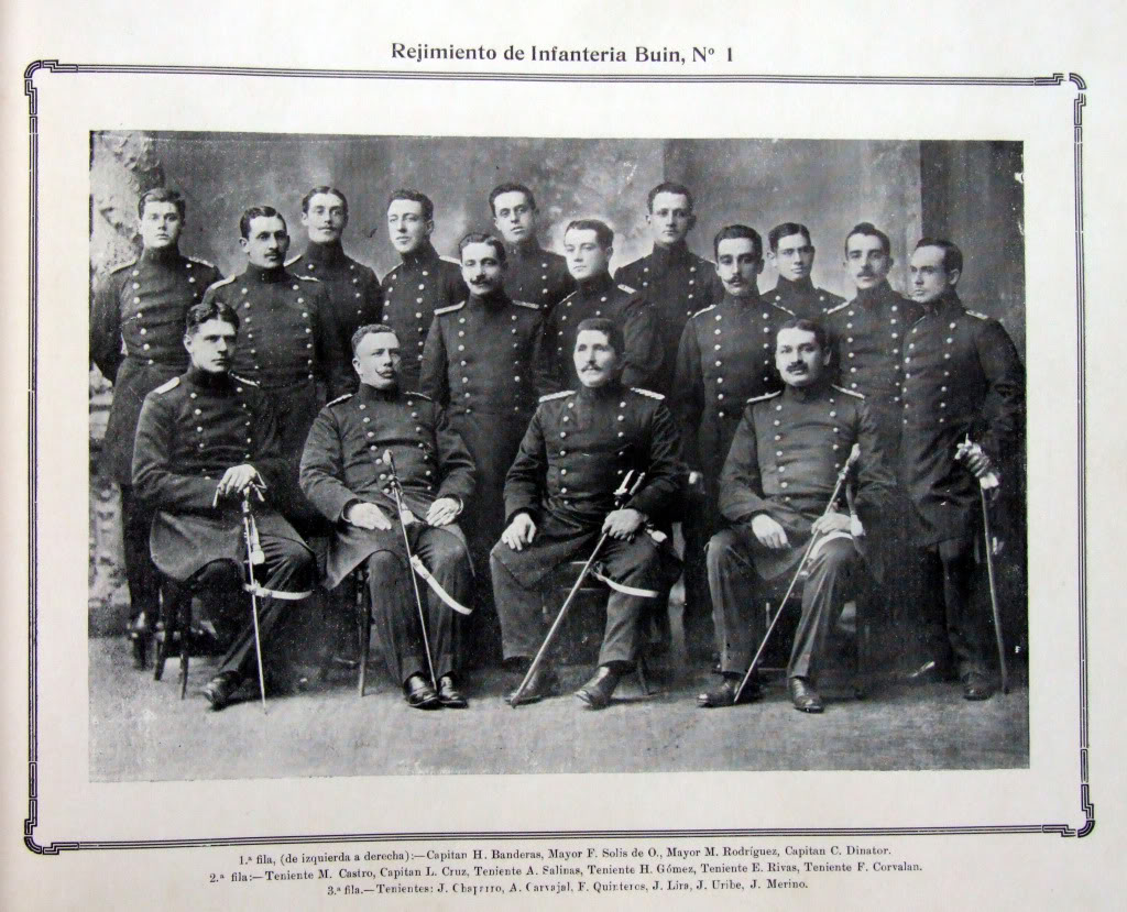 Ejército de Chile, Álbum militar 1910: Regimiento de Infanteria Buin nr.1